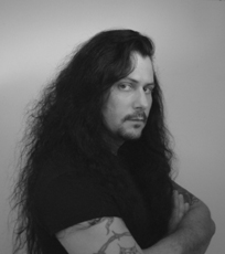 Rodney Blaze